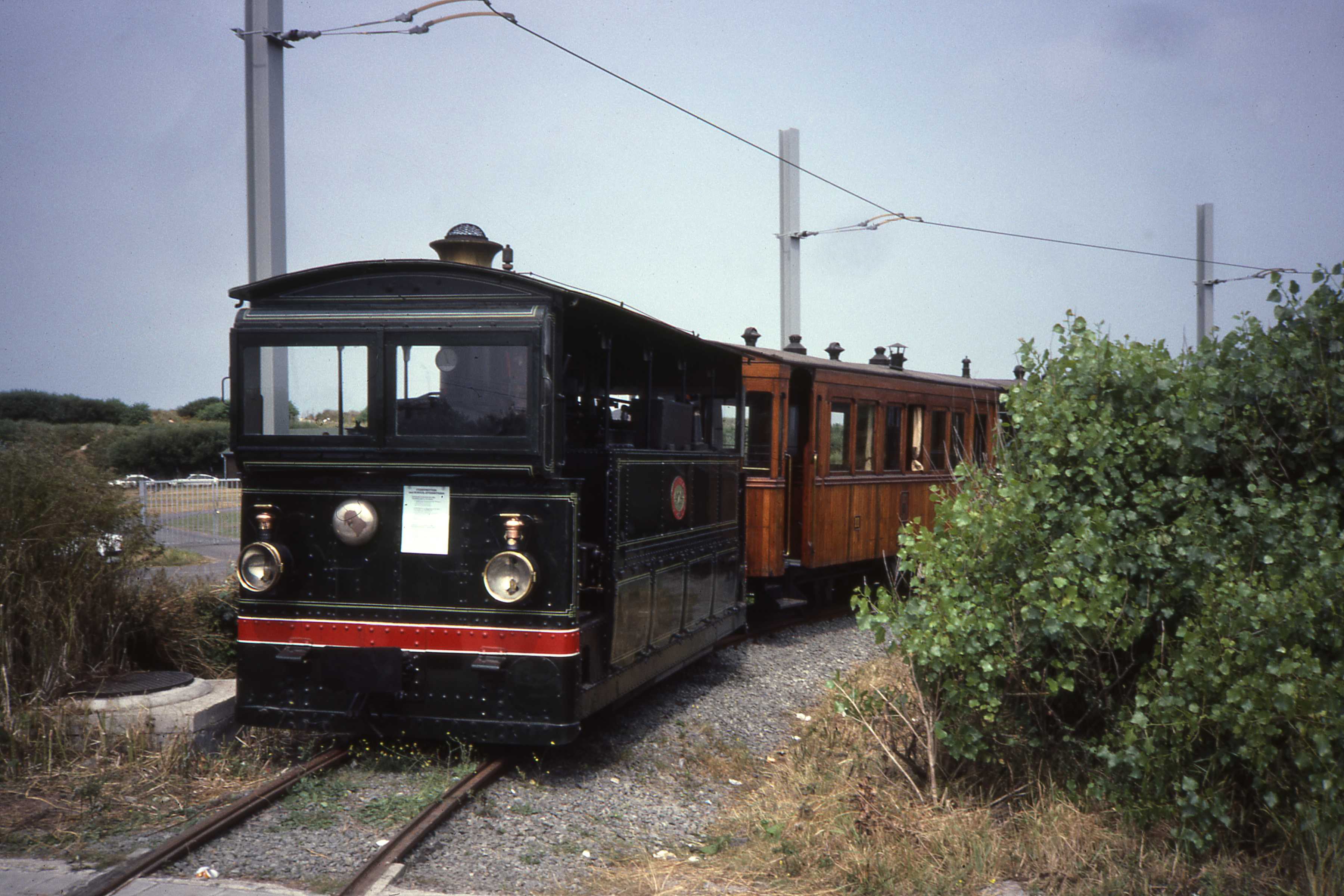 Original steamtrain off the SNCV on the Coastal line, a year after during the 100 year festivities off the SNCV. The Steamloc is now by the Asvi museum. The foto is taken by the turning circle situated between "De Haan" and "Wenduine"